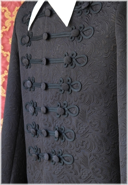 Bocskai öltöny